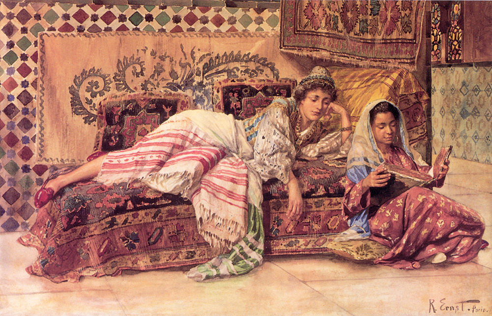 The Reader